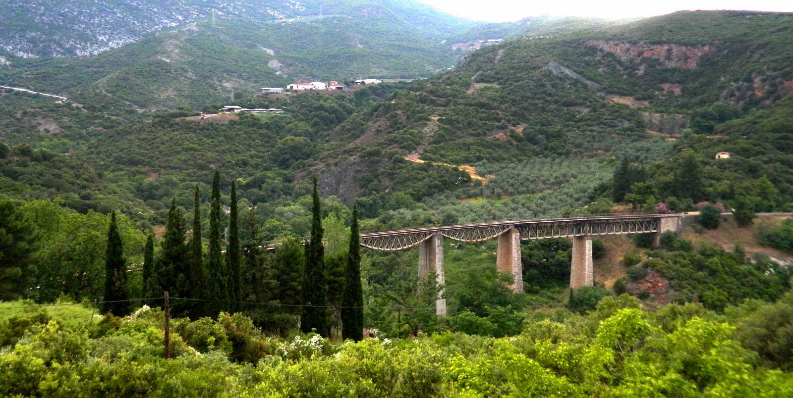 The historical Gorgopotamos bridge, near Lamia, Hellas